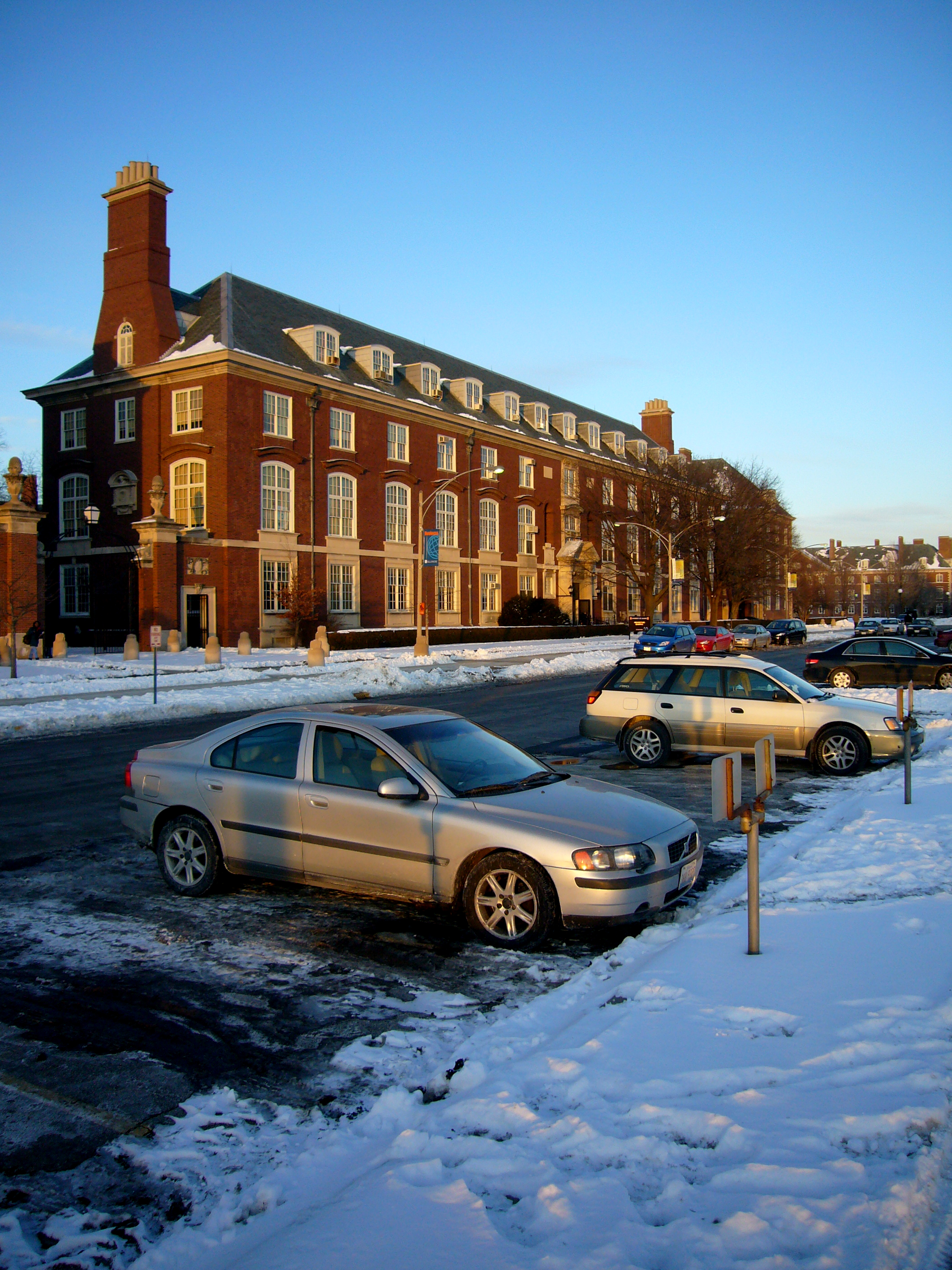 Building of the faculty of architecture on the campus of UIUC.